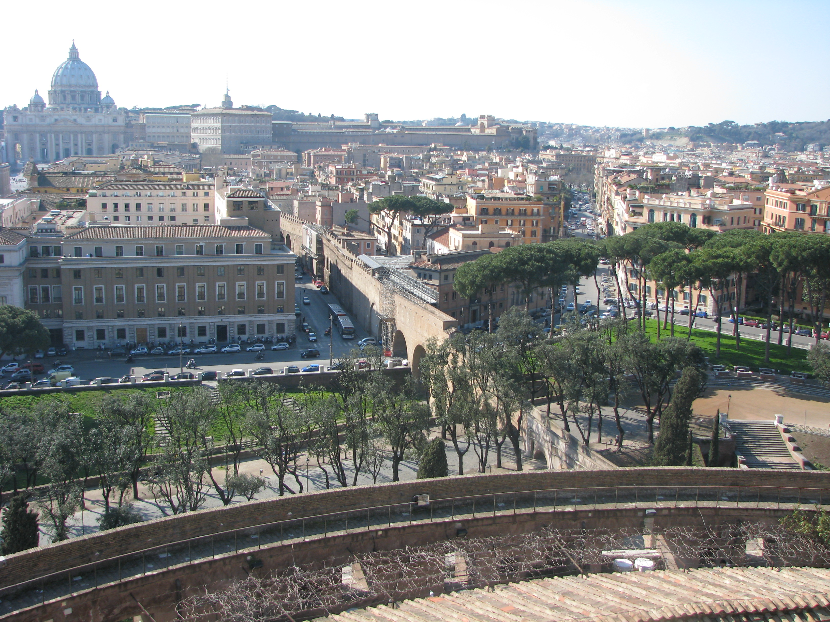 View of the Passetto di Borgo from Castel Sant'Angelo in Rome. This was an escape route for the pope to escape to the Castel in case of danger.